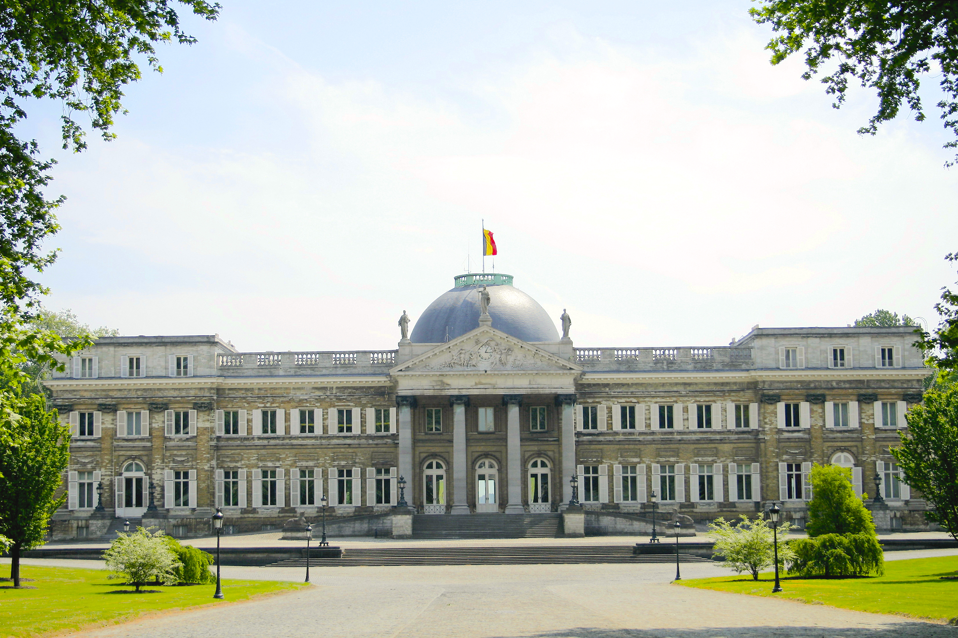 Laken (Belgium), the Royal Castle (architect: Charles de Wailly - 1782-1784).